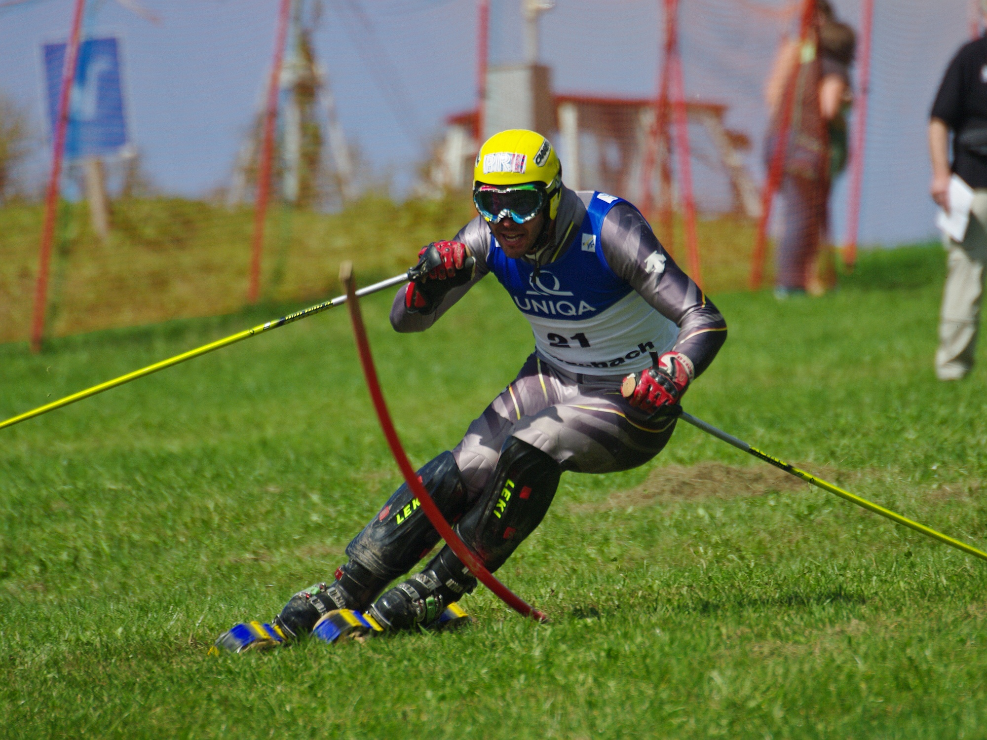 Czech grass skier Jan Němec in the second Slalom run at the 2009 Grass Skiing World Championships in Rettenbach, Austria.